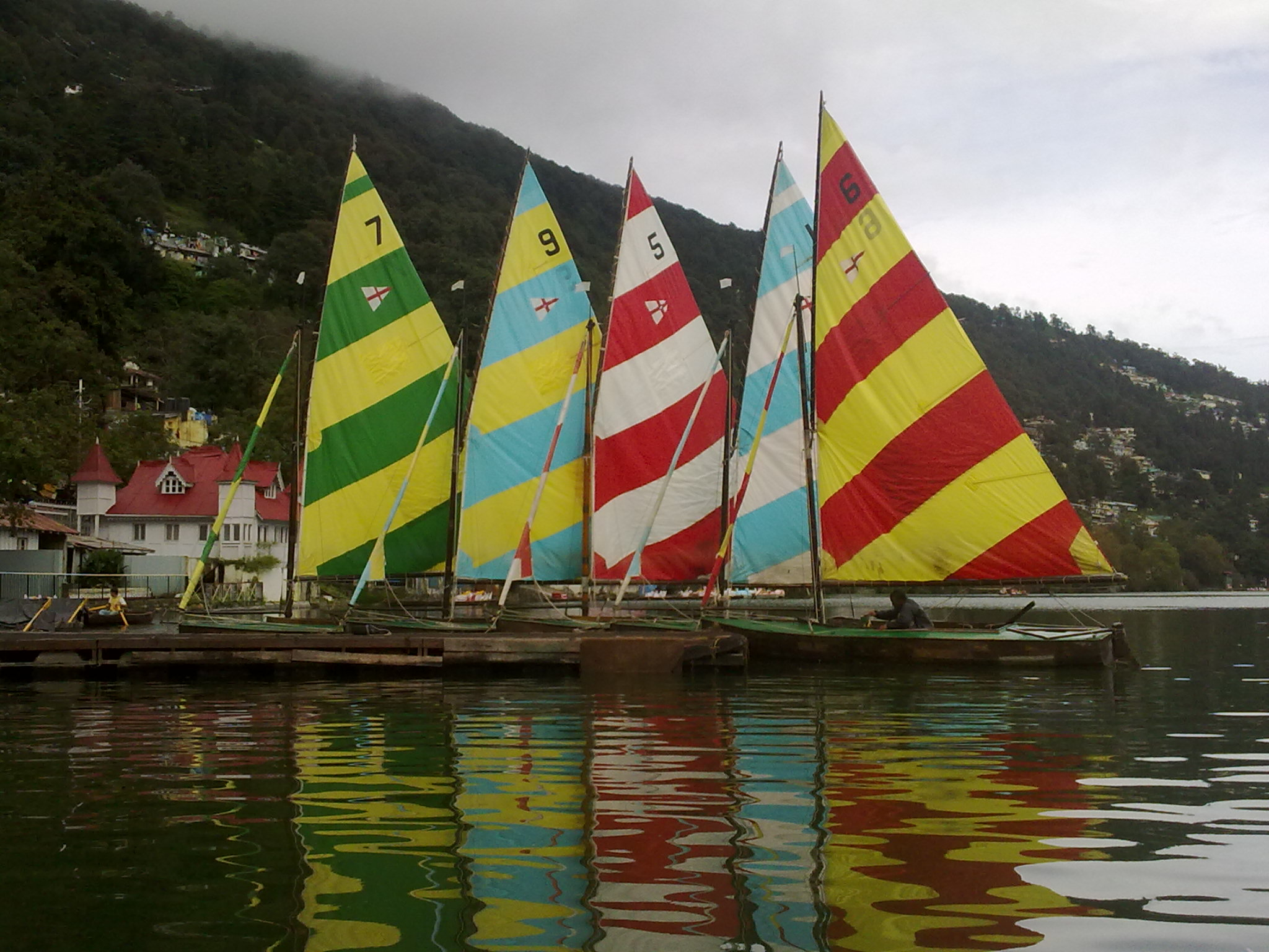 Nanital a city of lakes situated in Uttrakhand